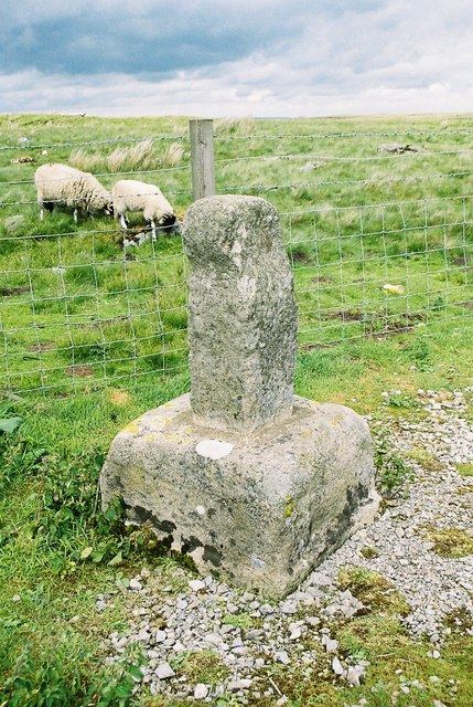 The stump of the ancient Rey Cross Early Medieval, possibly 10th century, boundary cross fragment. Transferred to this location in 1990 due to road widening. Listed and scheduled.